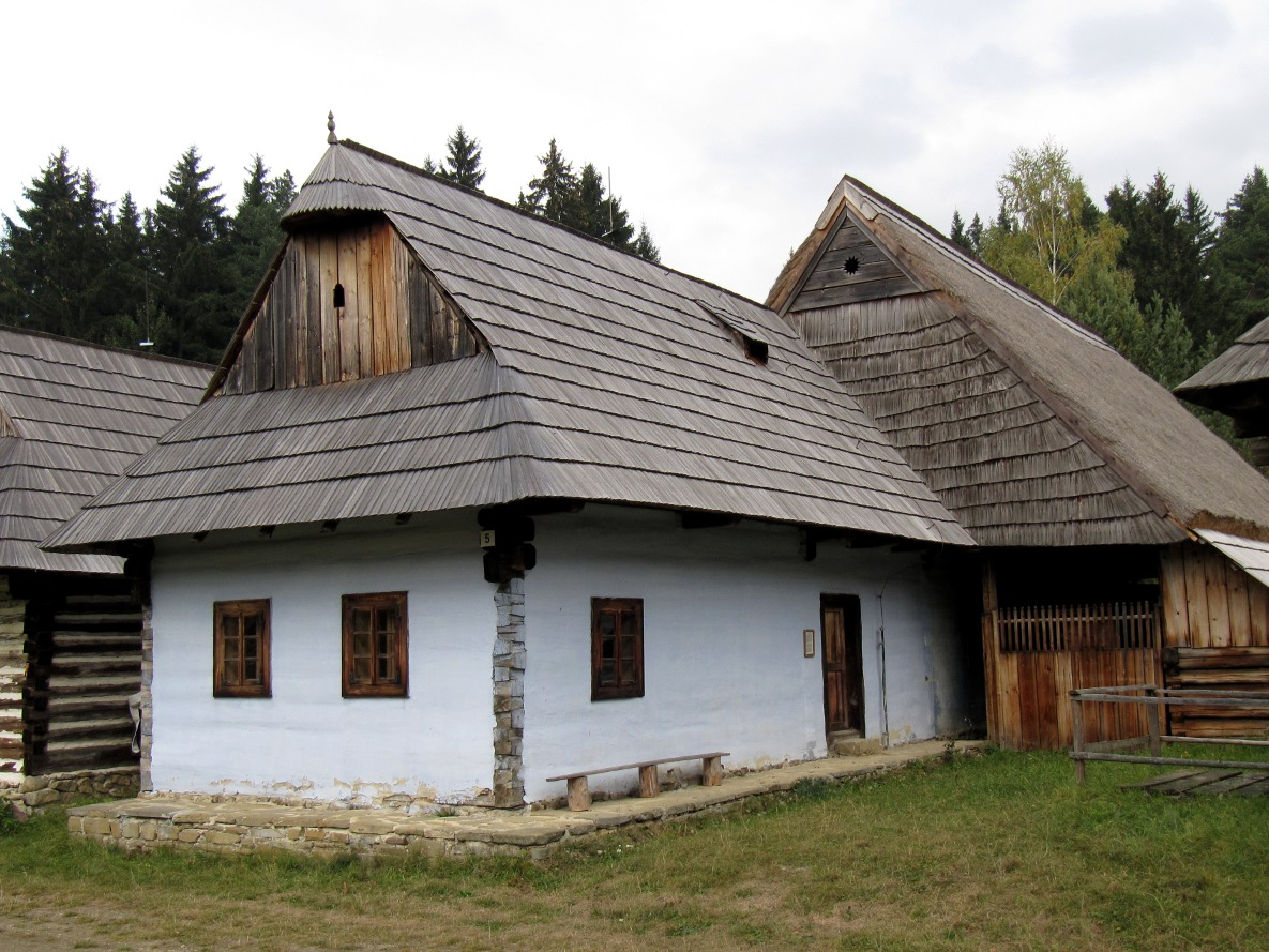 Homestead from Liptovská Sielnica in open air museum "Múzeum slovenskej dediny"